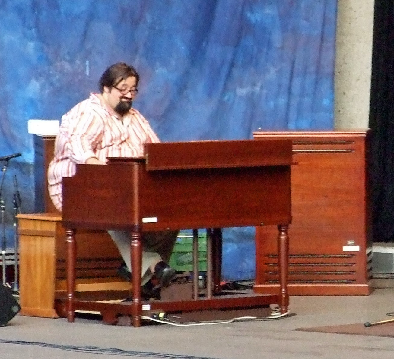 Joey DeFrancesco, at "Jazz im Palmengarten", Frankfurt am Main